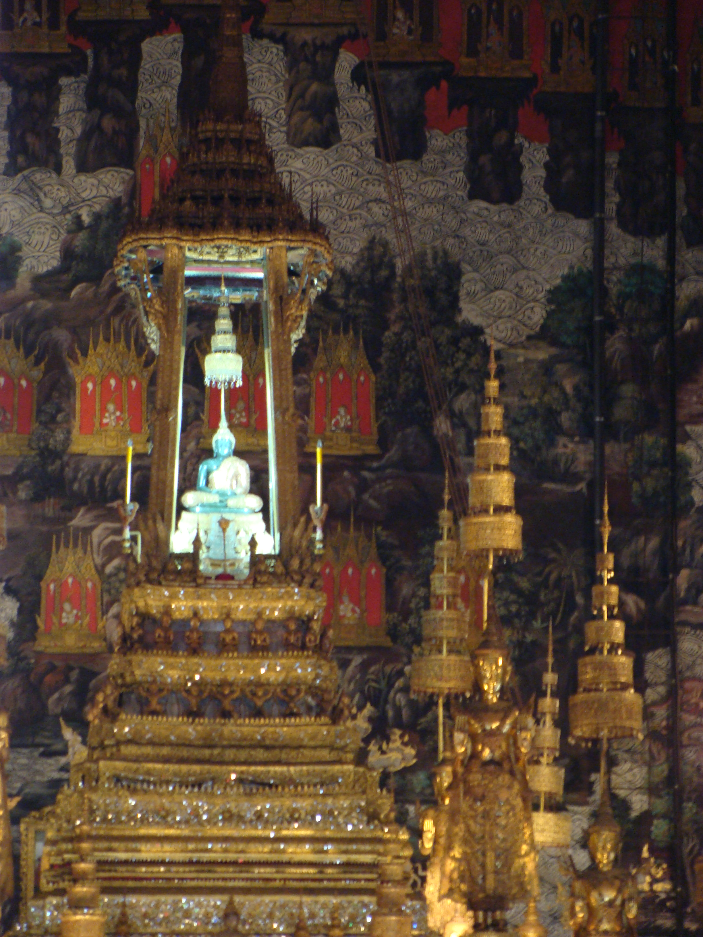 The Emerald Buddha is the palladium of the Kingdom of Thailand, a figurine of the sitting Buddha, made of green jade (rather than emerald), clothed in gold, and about 45 cm tall. It is kept in the Temple of the Emerald Buddha (Wat Phra Kaew) on the grounds of the Grand Palace in Bangkok.